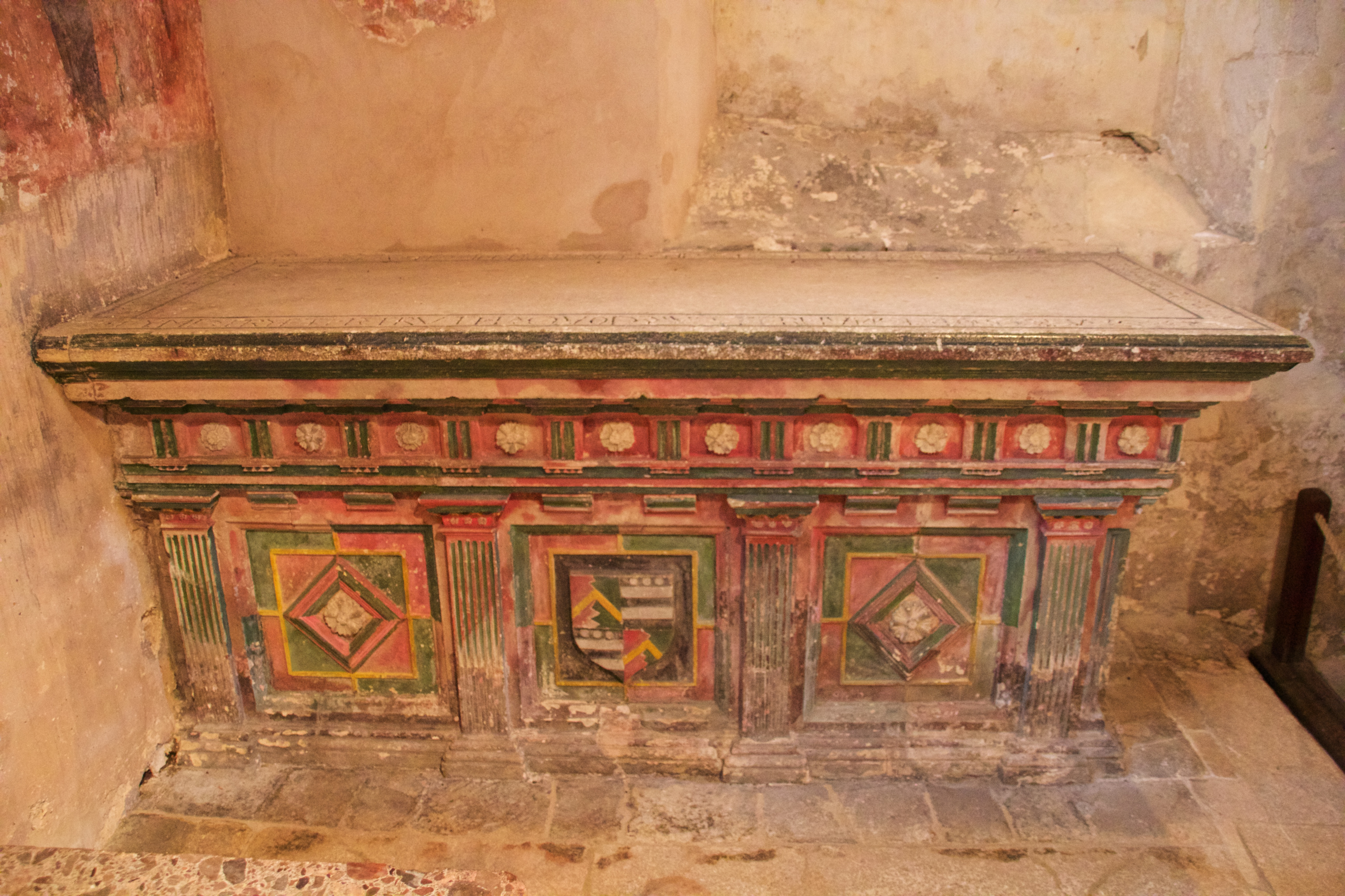 Farleigh Hungerford Castle, Wiltshire/Somerset, England. Chest tomb of Sir Walter Hungerford (died c.1596) and of his son Edward Hungerford (d.1585) displaying arms of Heytesbury (Per pale indented gules and vert, a chevron or) quartering FitzJohn (Sable, two bars argent in chief two plates). Footnote from Britton, John, History and Antiquities of Bath Abbey Church, London, 1825, p.47: "It appears from the Hungerfordiana of Sir Richard C. Hoare, that after the marriage of Walter de Hungerford with Maud de Heytesbury, the Hungerfords assumed the arms of her family, viz. Per Pale, indented, Gules and Vert; a Chevron Or" ... "After the marriage of another Walter de Hungerford, in the time of Edward the Third, with Elizabeth, daughter and heiress of Sir Adam Fitz-John, of Cherill, in Wiltshire, some of the Hungerfords took the arms of Fitz-John; namely, Sable, two Bars Argent, in Chief three Plates ... but many of the family continued to bear those of Heytesbury."[1]